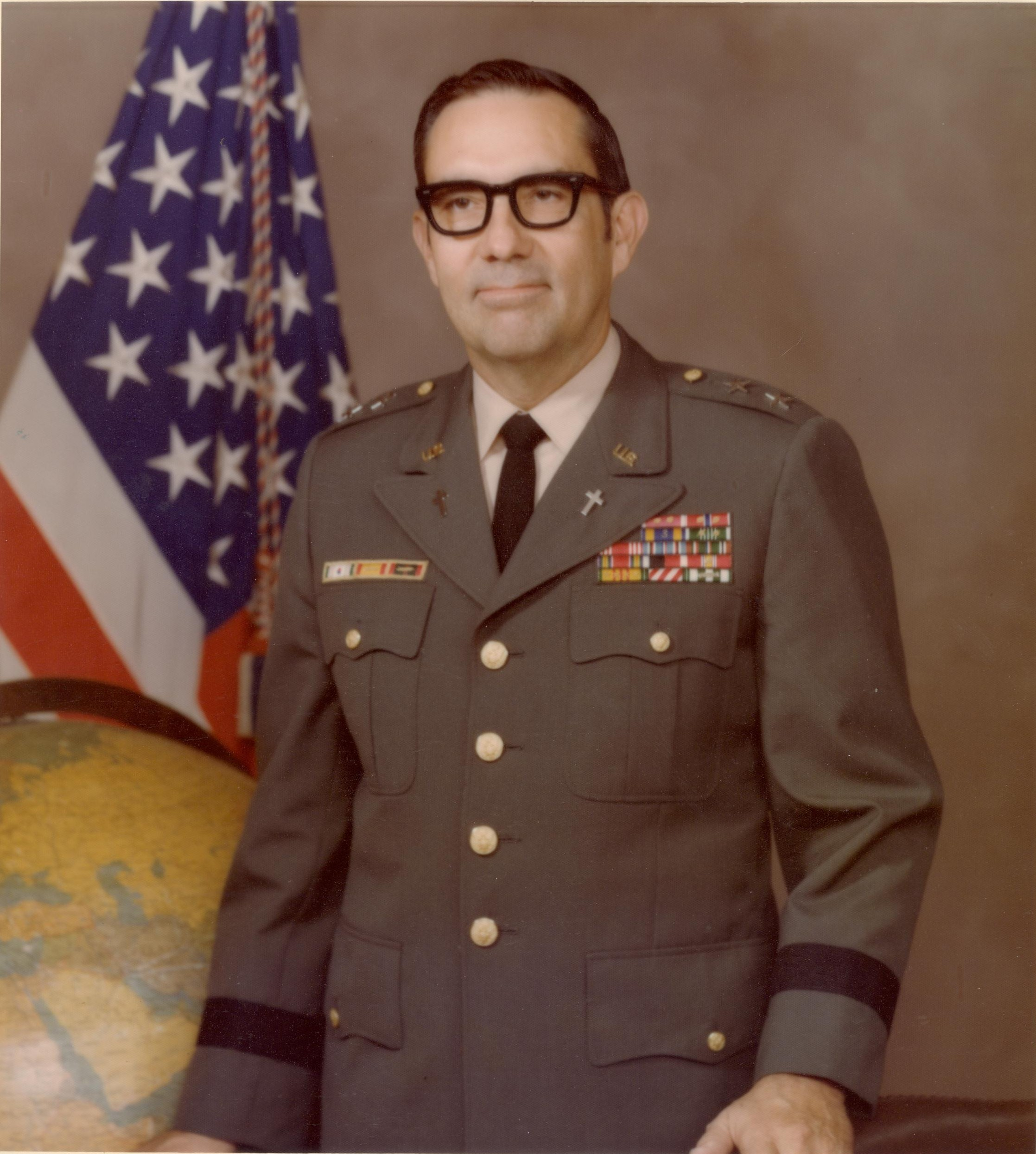 The official photograph, done by the Army, of their Chief of Chaplains